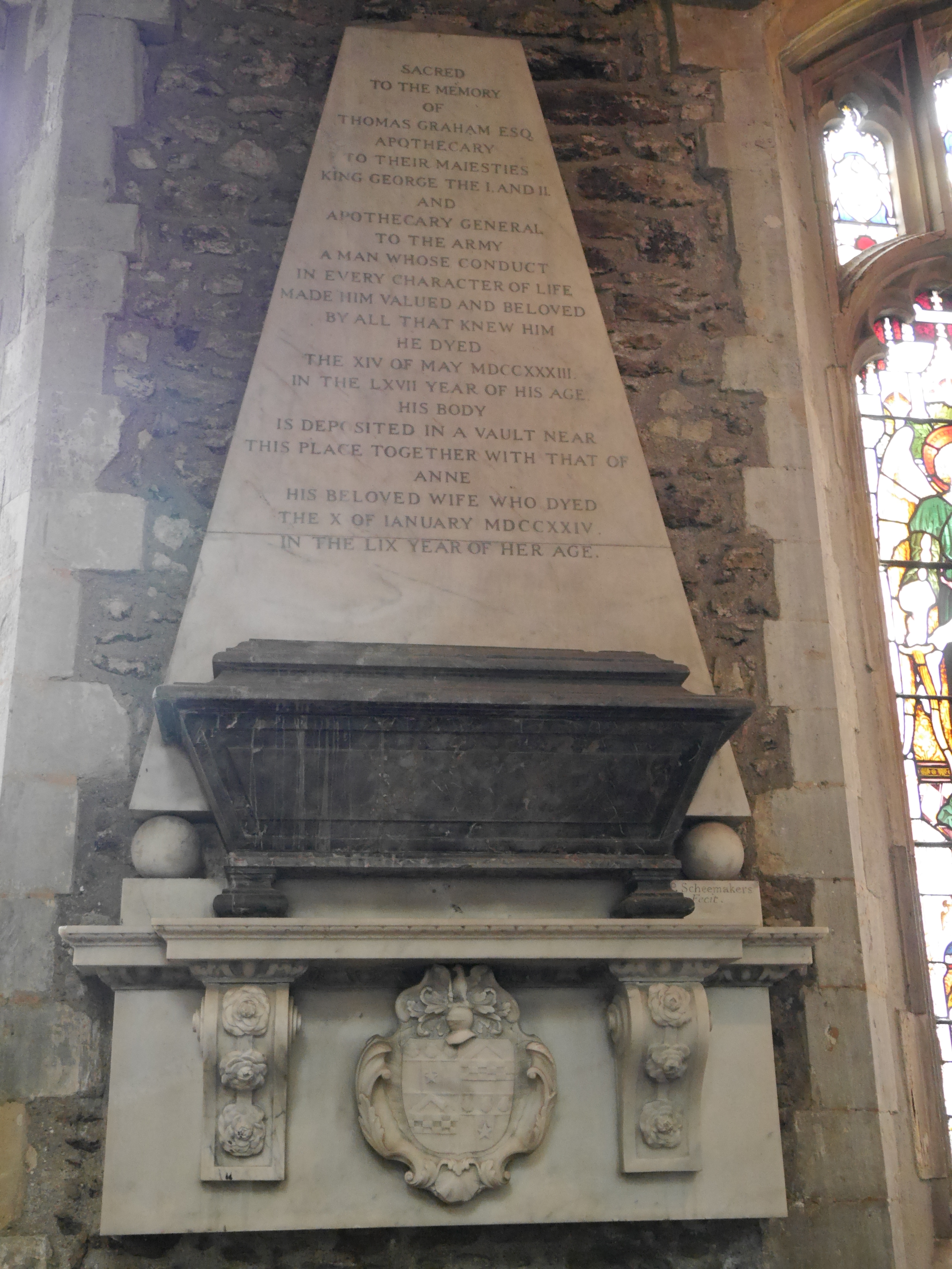 St Mary's, Harrow on the Hill, 2015